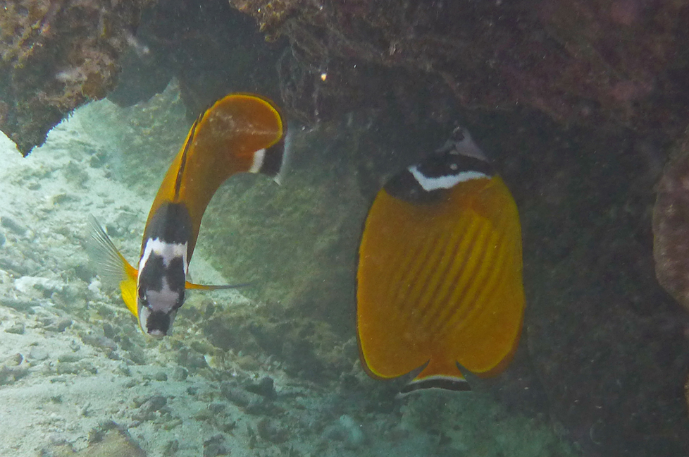 Hongkong butterflyfish. Underwater photographs of plants and animals from diving sites around Ko Tao, Thailand.